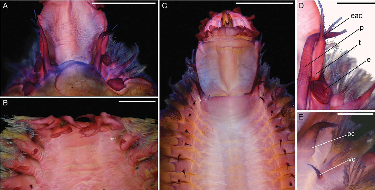 Figure 7; Micrographs of Thermiphione rapanui sp. n. holotype (SIO-BIC A8557) and paratype (SIO-BIC A7971), stained with Shirlastain-A. Scale bars in A–C represent 1 mm, and scale bars in D–E represent 0.25 mm. A Dorsal view of anterior with 2 pairs of scales removed, holotype B Ventral view of anterior showing palps tentaculophore and cirri, paratype. C Ventral view of anterior with pharynx everted and jaws visible, holotype D Magnified dorsal view of anterior right side, holotype. Abbreviations as follows: e, elytrophore; p, palp; t, tentaculophore; eac, enlarged anterior cirrus E Magnified ventral view of left anterior parapodia and ventral cirri on segments 2 and 3, holotype. Abbreviations: bc, buccal cirrus; vc, ventral cirrus.